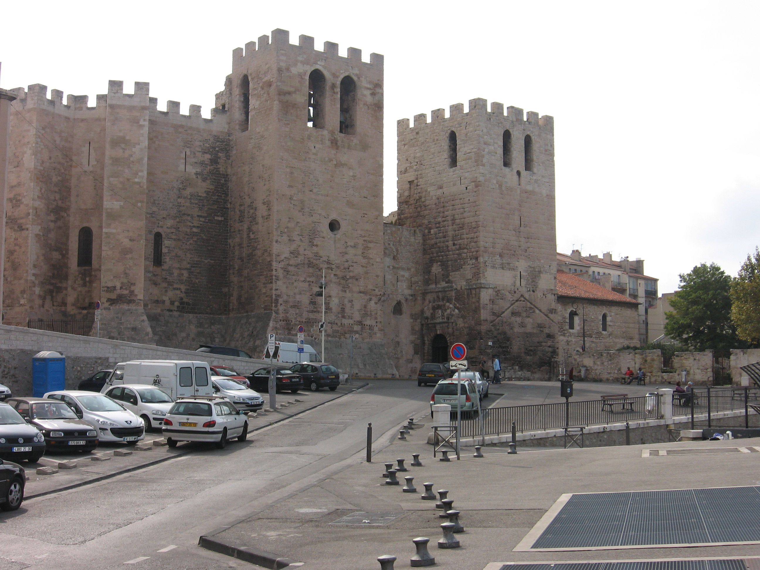 Saint-Victor